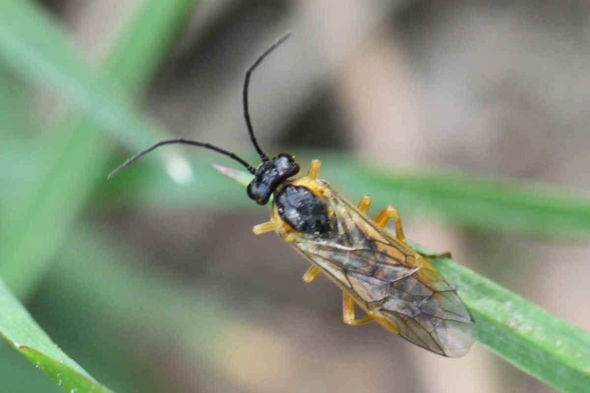 Nematus cf myosotidis am 31.3.2017 in der Schwetzinger Hardt